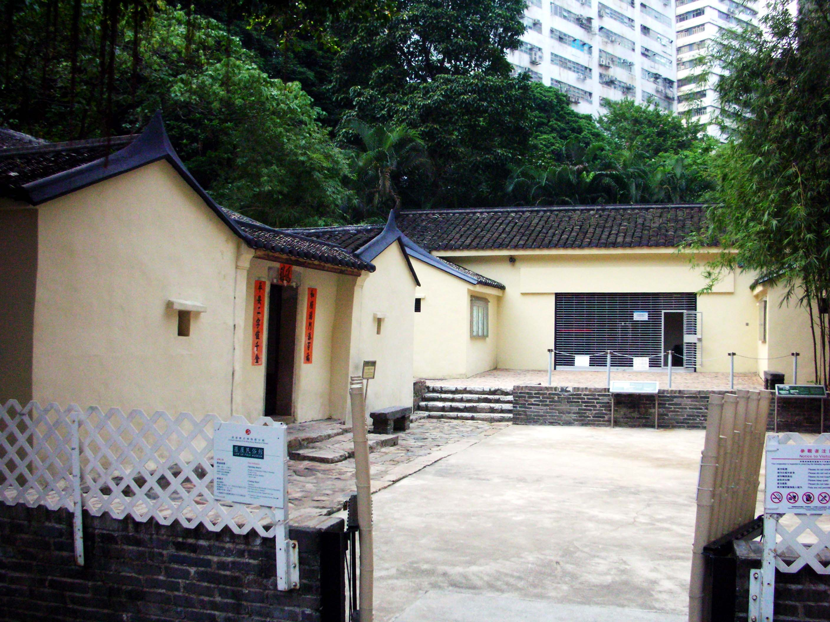 Law Uk Folk Museum, located at Chai Wan, Hong Kong